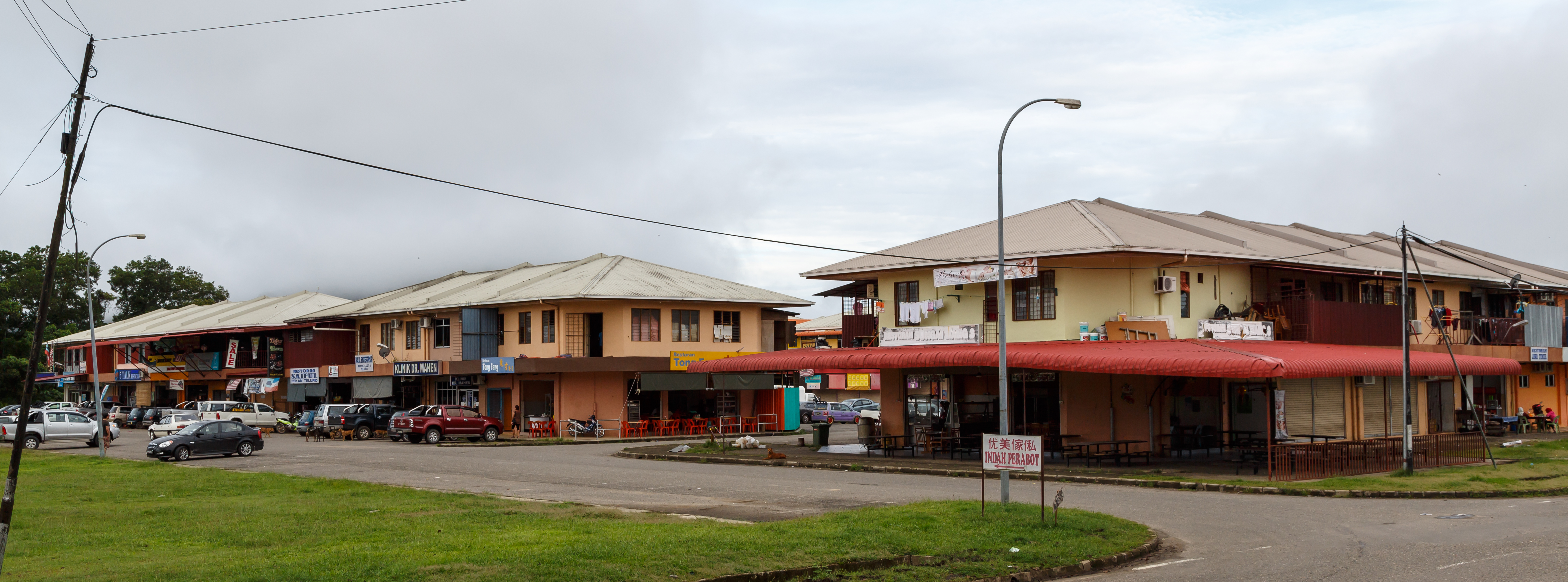 Telupid, Sabah: Town Center of Telupid, Shophouse